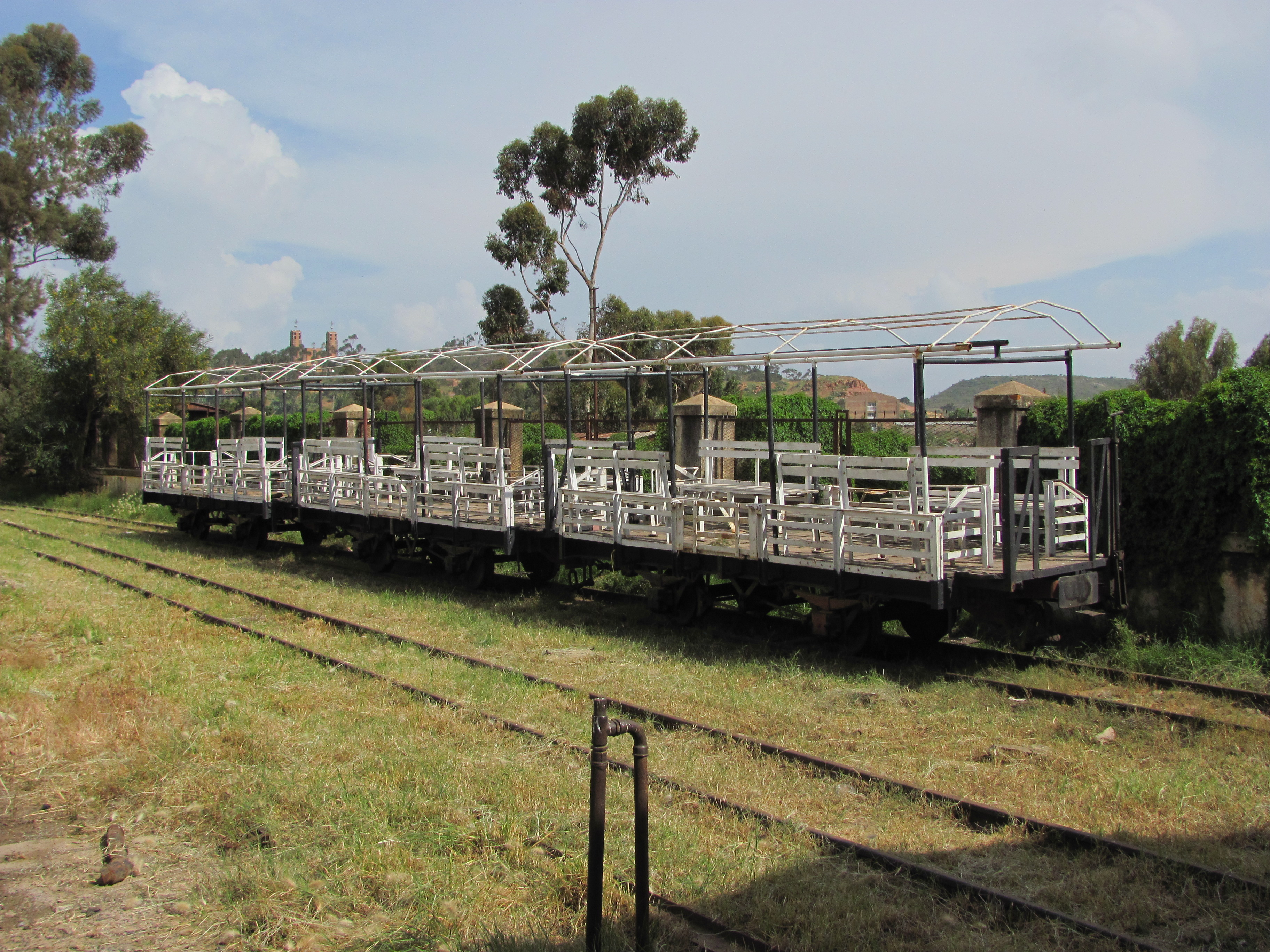 Commuter train, Eritrea Rly